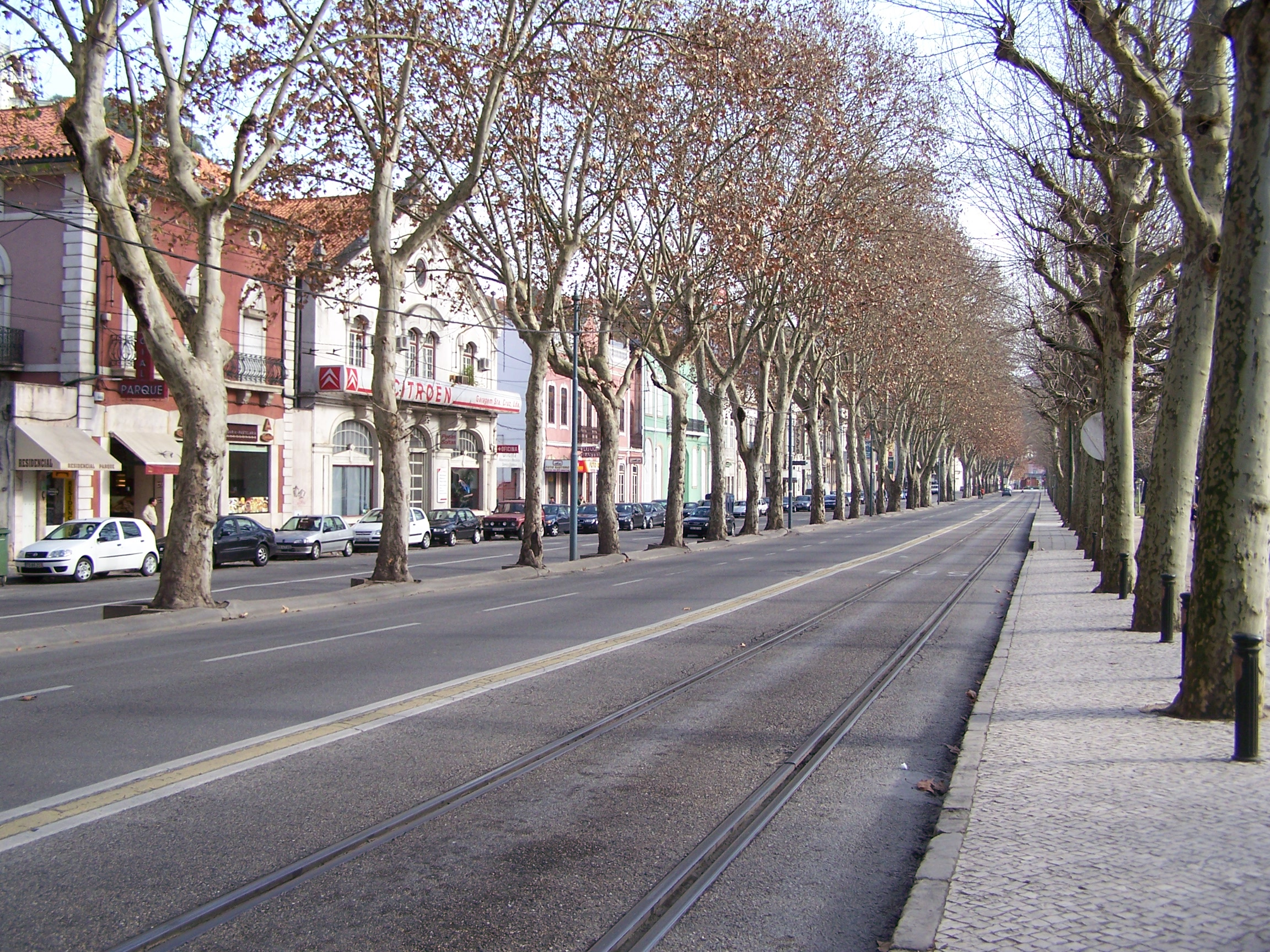 track of the Ramal de Lousã, connection between the two stations Coimbra-Parque and Coimbra-A, Coimbra, Portugal